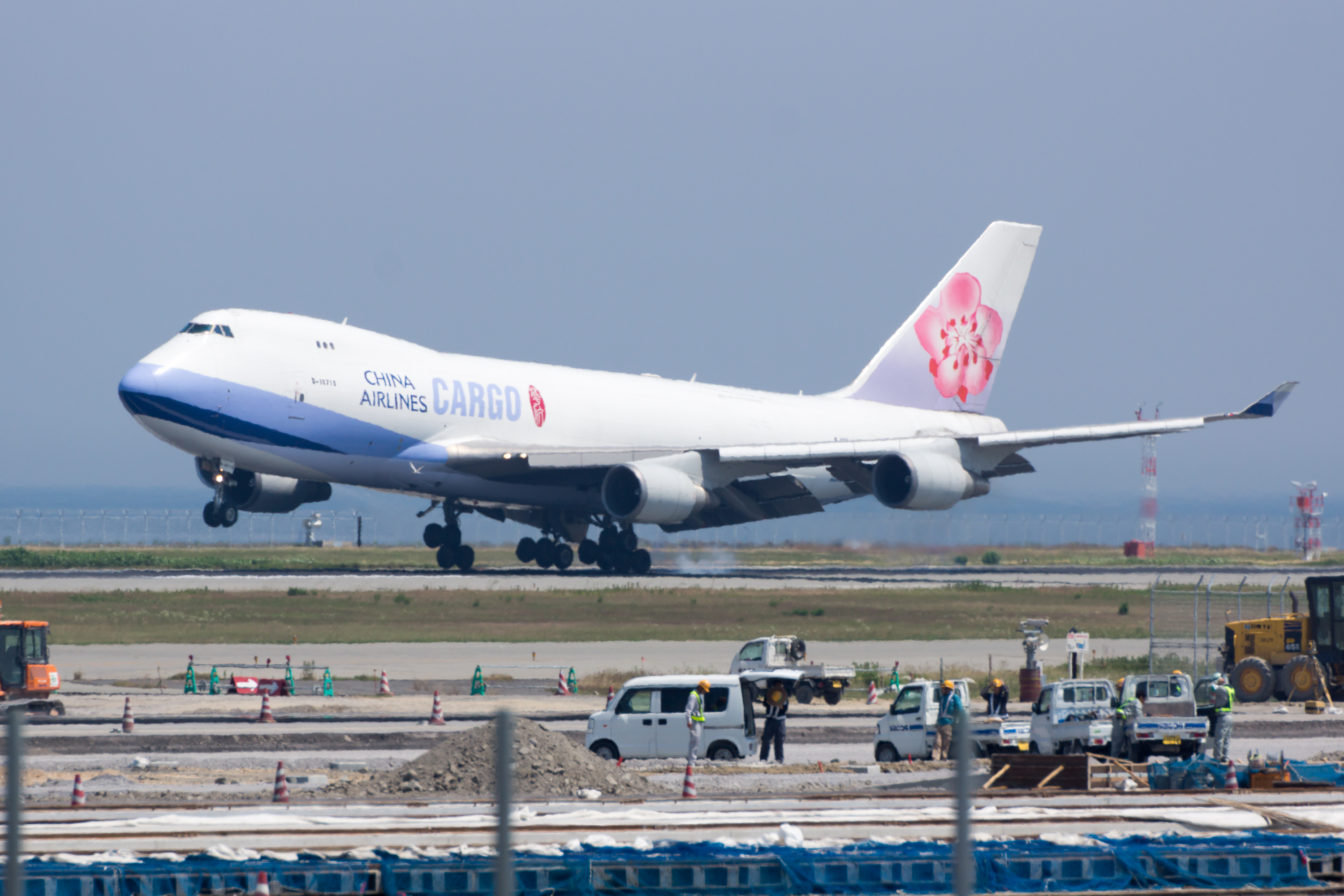 China Airlines / 中華航空 / チャイナエアライン Boeing 747-409(F) B-18715 CI5148, Arrived from Taipei Osaka Kansai Int'l Airport